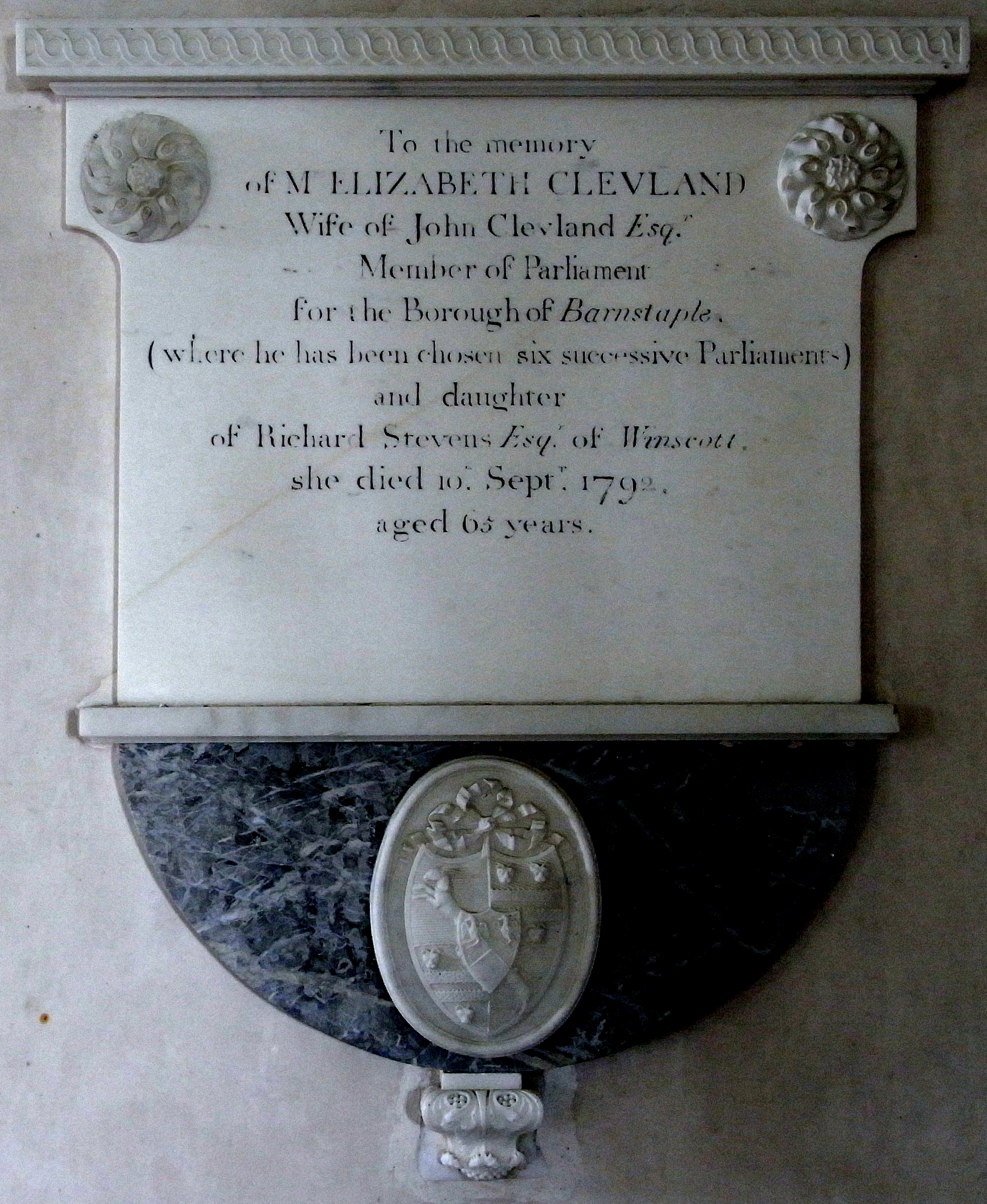 Mural monument to Mrs Elizabeth Stevens (1727-1792), the daughter and heiress of Richard Stevens of Winscott, in the parish of Peters Marland, Devon and wife of John II Clevland (1734–1817), of Tapeley, MP for Barnstaple in seven parliaments and Director of Greenwich Hospital. Inscribed as follows: "To the memory of Mrs Elizabeth Clevland wife of John Clevland Esq., Member of Parliament for the Borough of Barnstaple (where he has been chosen six successive parliaments) and daughter of Richard Stevens of Winscott. She died 16 September 1792 aged 65 years" Below is a white marble relief sculpted escutcheon showing the following arms: Quarterly 1st & 4th: Azure, a hare salient or collared gules pendent therefrom a bugle horn stringed sable (Clevland) ; 2nd & 3rd: Vert, two bars engrailed between three leopard's faces or (Child baronets, of the City of London (1685), Child of Surat, East Indies and Dervill, Essex, Baronet, created 1684, extinct 1753) (Burke's Armorials, 1884) the arms of William Clevland's mother Elizabeth Child). Overall is an inescutcheon of pretence of Stevens: Per chevron azure and gules, in chief two falcons rising belled or.